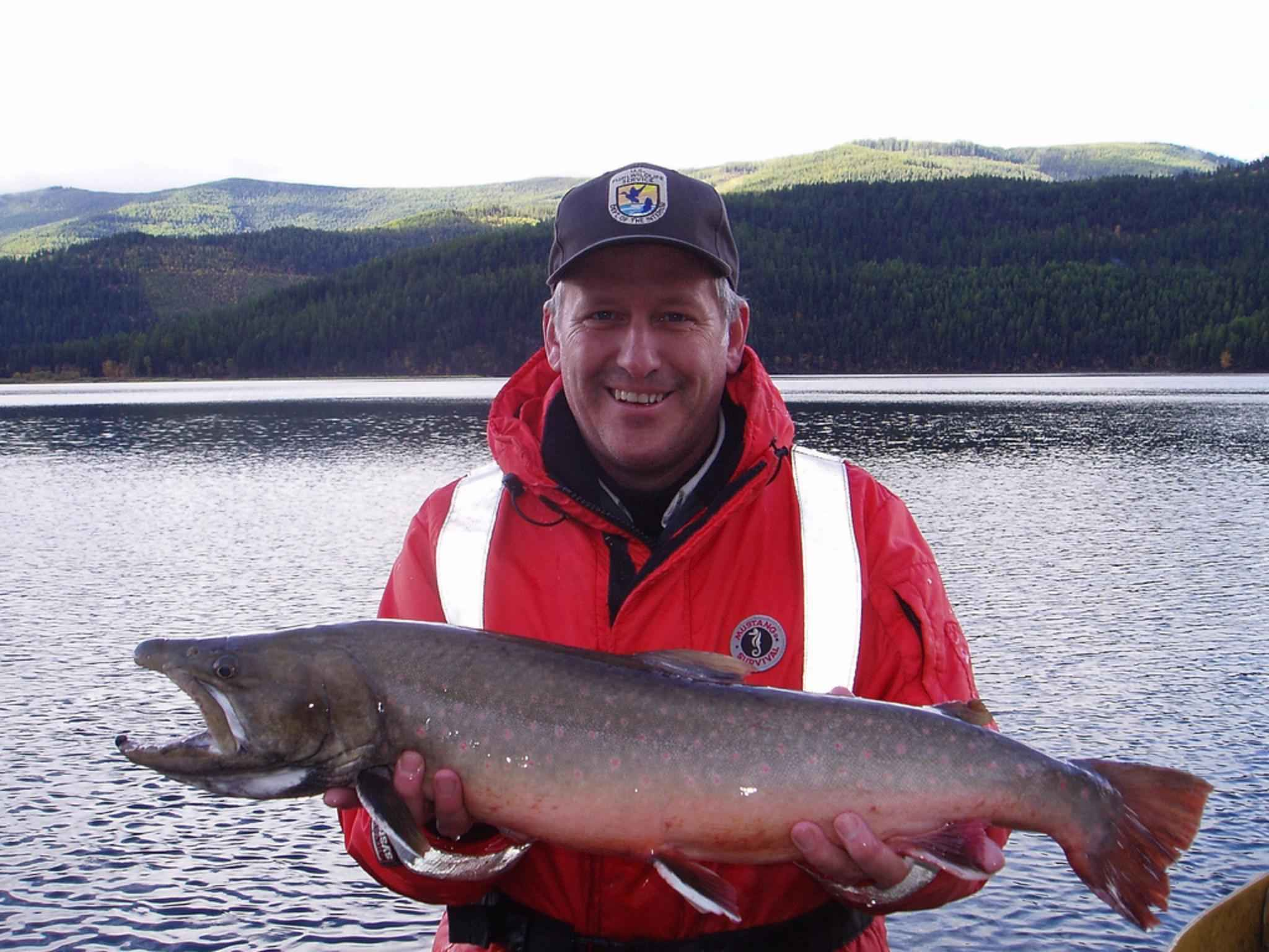 Image title: Fisherman caught bull trout, Salvelinus confluentus Image from Public domain images website